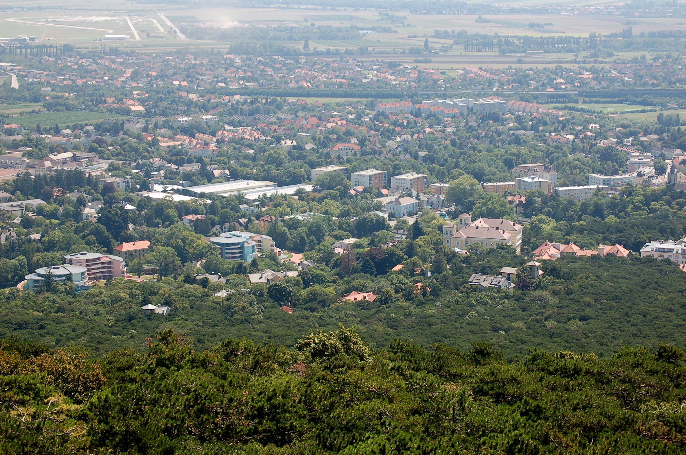 View of Bad Voeslau from Harzberg